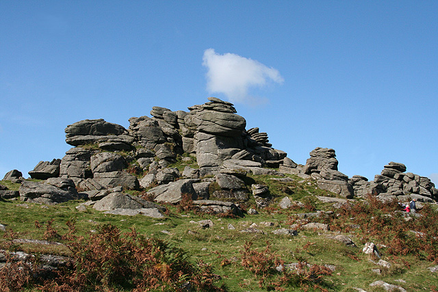 Manaton: Hound Tor Seen from the south east